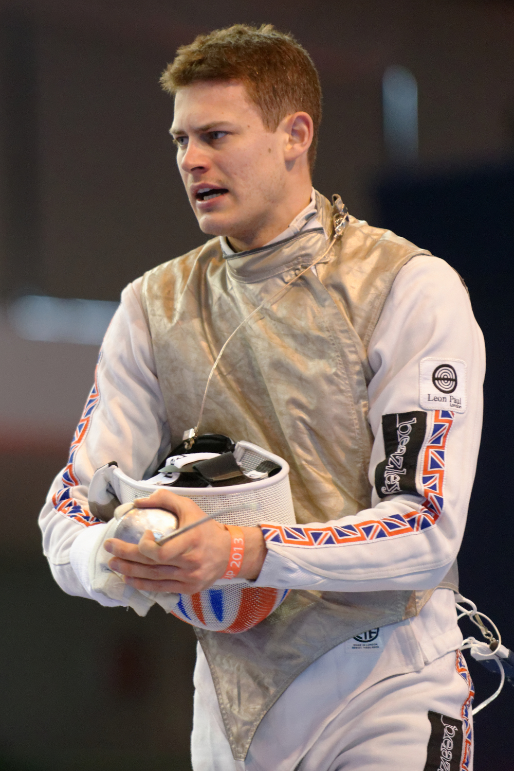 Richard Kruse in T32 final of the Challenge international de Paris 2013 against Siarhei Byk.